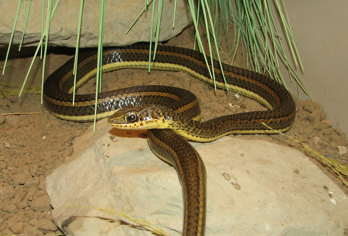 Stripe-bellied sand snake, Psammophis subtaeniatus